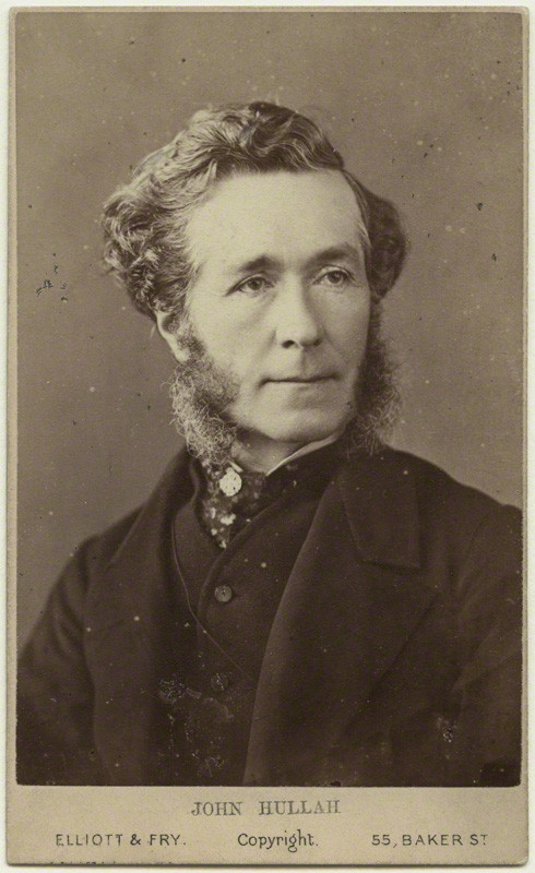 Photograph of John Pyke Hullah. Albumen carte-de-visite, 1860s. 3 3/4 in. x 2 3/8 in. (94 mm x 61 mm) image size.